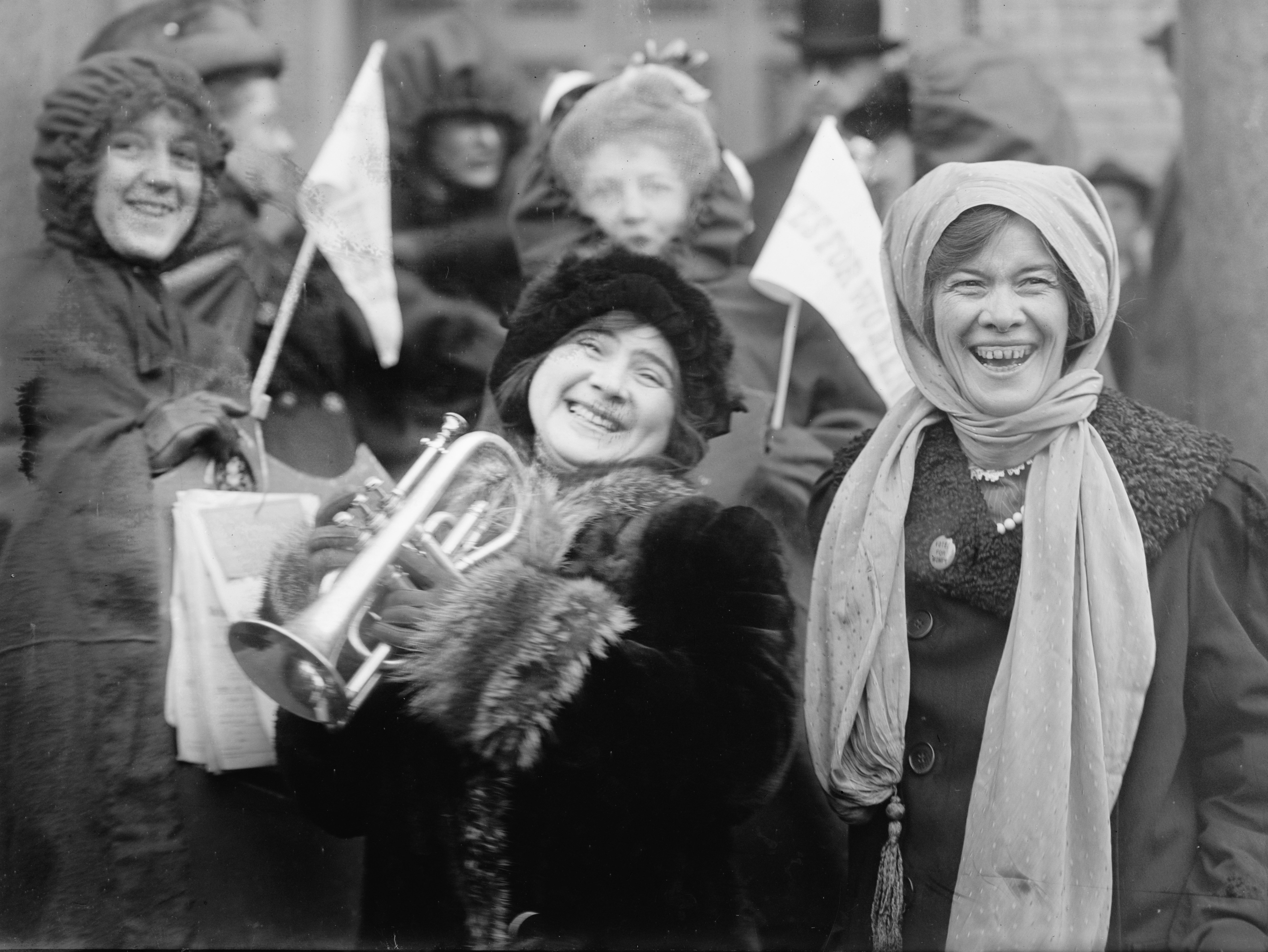 Rose Sanderson Women's suffragists demonstrate in February 1913. The triangular pennants read "VOTES FOR WOMEN". The negative is labeled "ROSE SANDERSON", the woman holding the trumpet. An adjacent photograph in the series (LC-DIG-ggbain-12482) contains a flyer labeled "COME AND WATCH SUFFRAGE SPREAD" that identifies the event as one sponsored by the National Suffrage Association. MEDIUM: 1 negative : glass ; 5 × 7 in. or smaller.